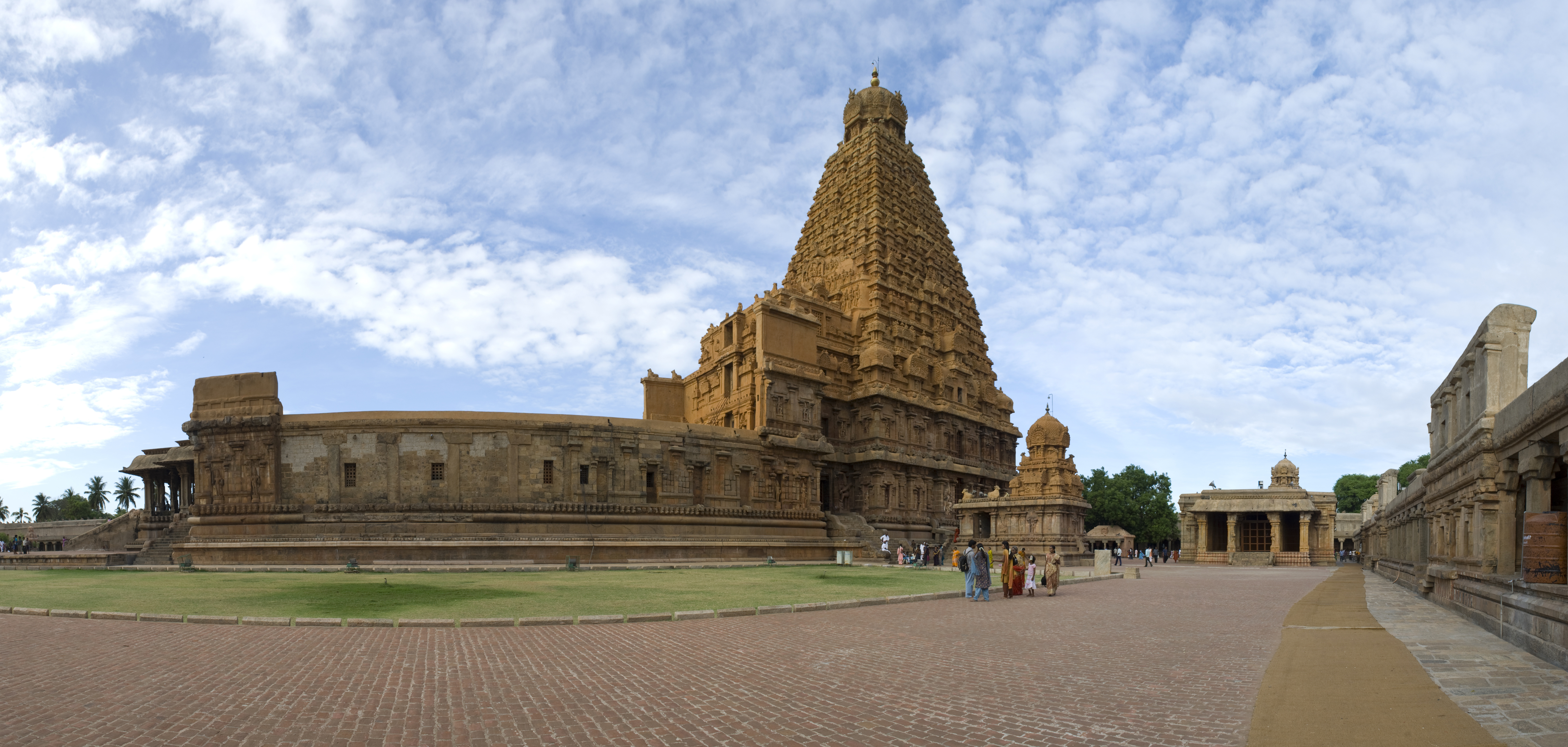 iNDIA'S largest temple which is known as Brihadeeswarar Temple and Rajarajeswaram located at Thanjavur in the state of Tamil Nadu.The temple is part of the UNESCO World Heritage Site "Great Living Chola Temples".The Peruvudaiyar Koyil also known as , is a Hindu temple dedicated to Shiva and a brilliant example of the major heights achieved by Cholas in Tamil architecture. It is a tribute and a reflection of the power of its patron Raja Raja Chola I.The temple is one of the greatest glories of Indian architecture.". This temple is one of India's most prized architectural sites. The temple stands amidst fortified walls that were probably added in the 16th century. The vimana — or the temple tower — is 216 ft (66 m) high and is among the tallest of its kind in the world. The Kumbam (or Kalash or Chikharam) (apex or the bulbous structure on the top) of the temple is not carved out of a single stone as widely believed. There is a big statue of Nandi (sacred bull), carved out of a single rock, at the entrance measuring about 16 feet long and 13 feet high. The entire temple structure is made out of hard granite stones, a material sparsely available in Thanjavur area where the temple is. Built in 1010 AD byRaja Raja Chola in Thanjavur, Brihadeeswarar Temple, also popularly known as the ‘Big Temple', turned 1000 years old in 2010.